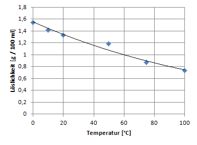 Solubility diagram of Lithium carbonate. Numeric data from: R. Abegg, F. Auerbach, I. Koppel: "Handbuch der anorganischen Chemie", Verlag S. Hirzel, 1908, 2. Band, 1. Teil, S. 146ff.